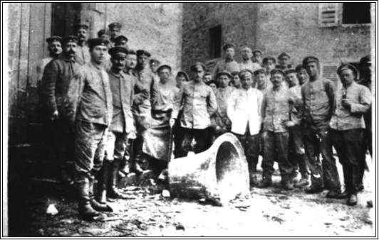 Removal of the bell(Martincourt-sur-Meuse) by the Germans on 7th August 1917